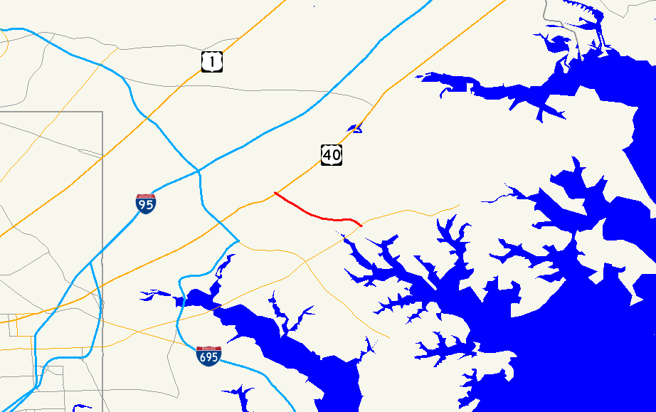 Map of Maryland Route 700